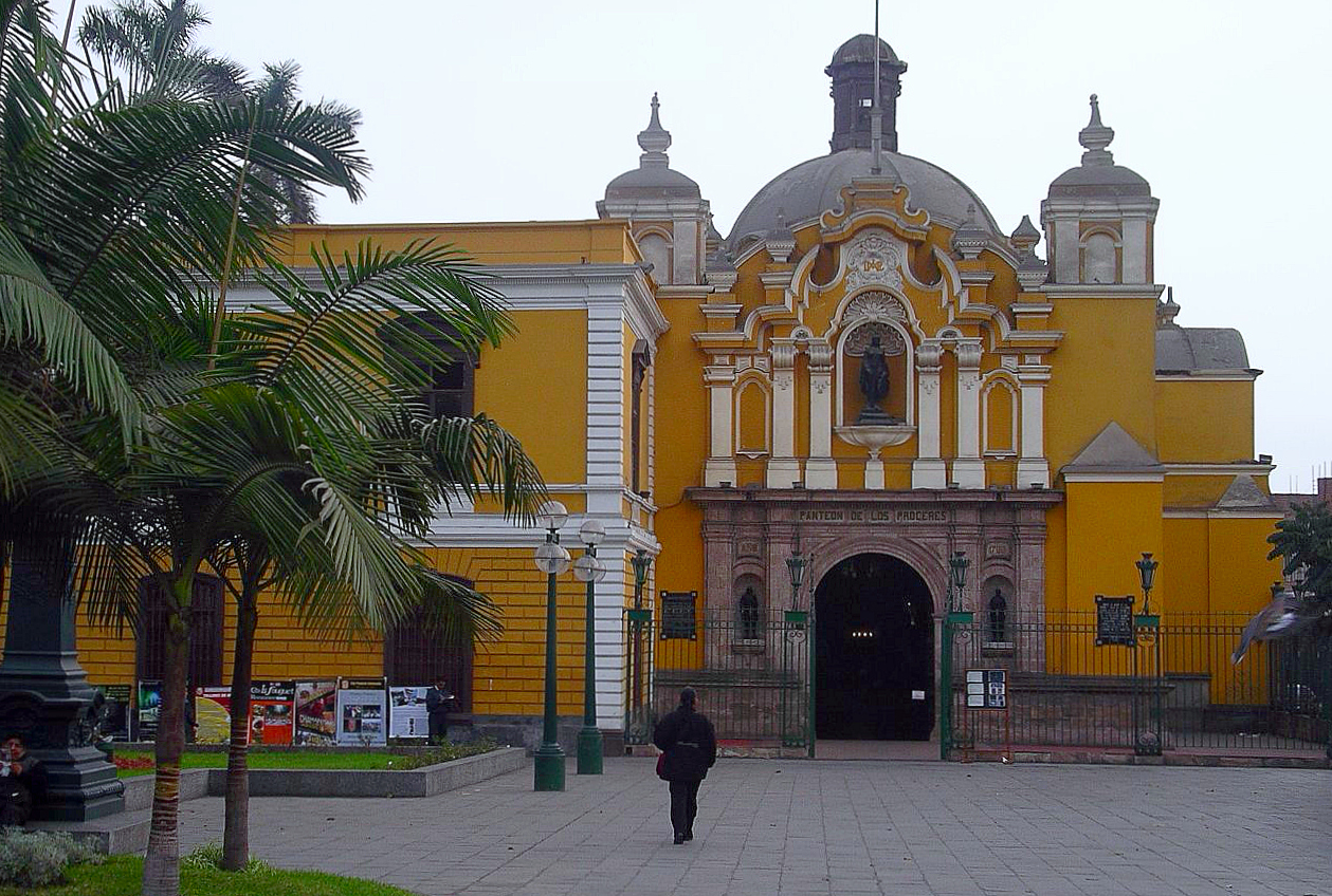 University of San Marcos, Lima, Peru. It's the first university founded in the Americas (1551).